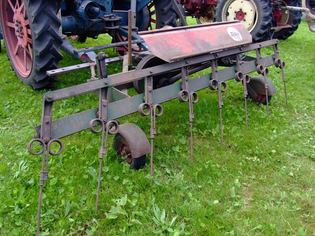 Reciprocating or "vibration-extracting" tedder Streif, built by Fella (Feucht, Bavaria, Germany)